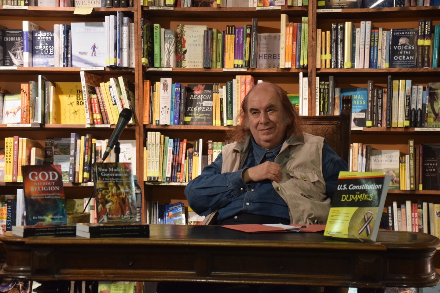 Photograph of Dr Michael Arnheim at a book-signing event at Tattered Cover Bookstore, Denver, Colorado, on September 26, 2016.